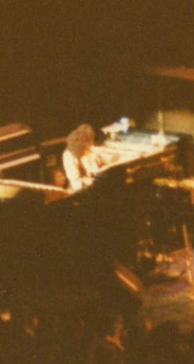 Patrick Moraz with the Moody Blues between 1978-82